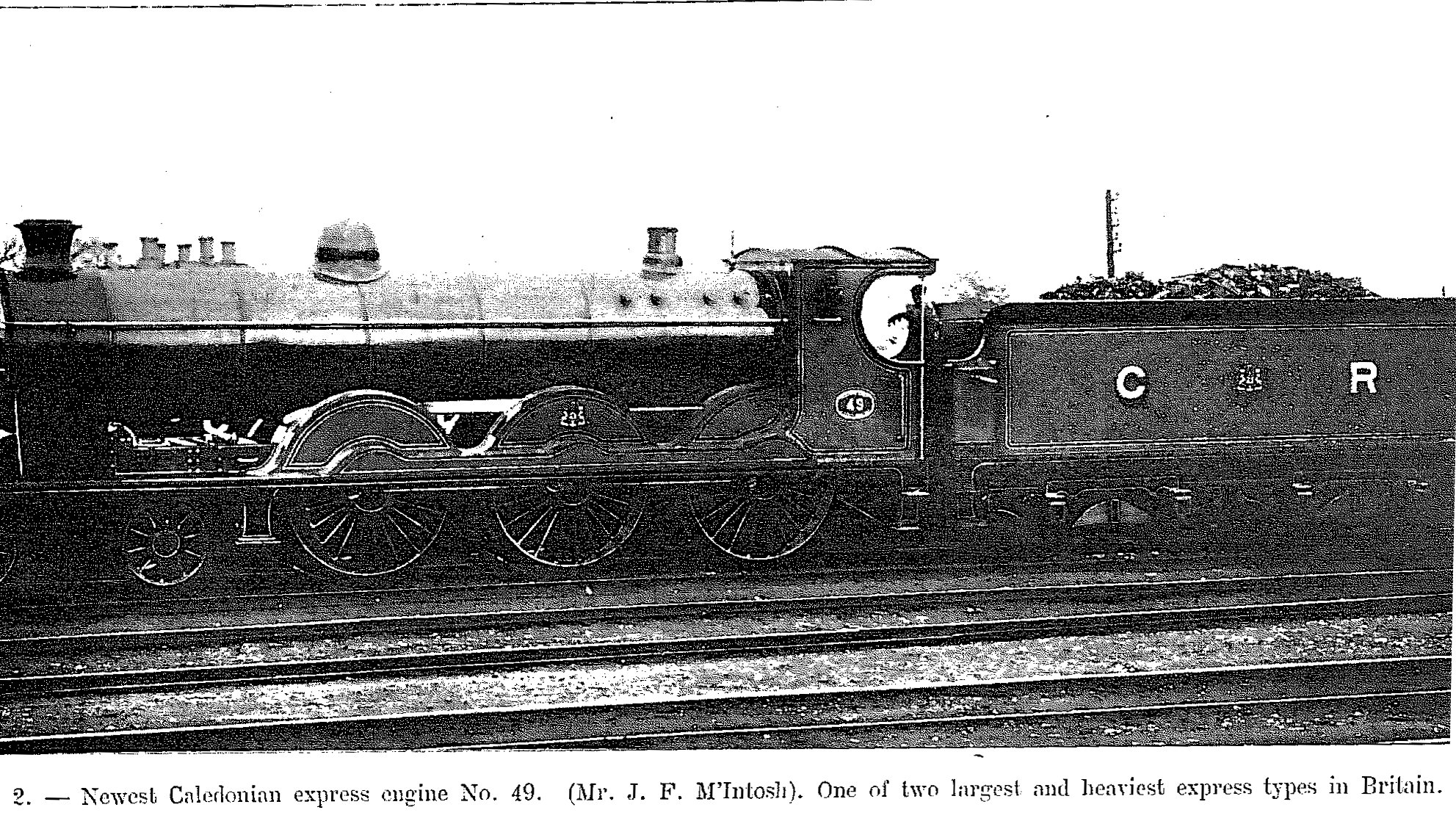 Image of a Caledonian Railways express engine no.49 Copied from the PDF shown. Number 3381 Title British locomotives in 1903 Author Rous-Marten C. Editor Weissenbruch Place of edition Brussels Edition year 1904 TW 1904 Cote II 87.958 A 18 / 31